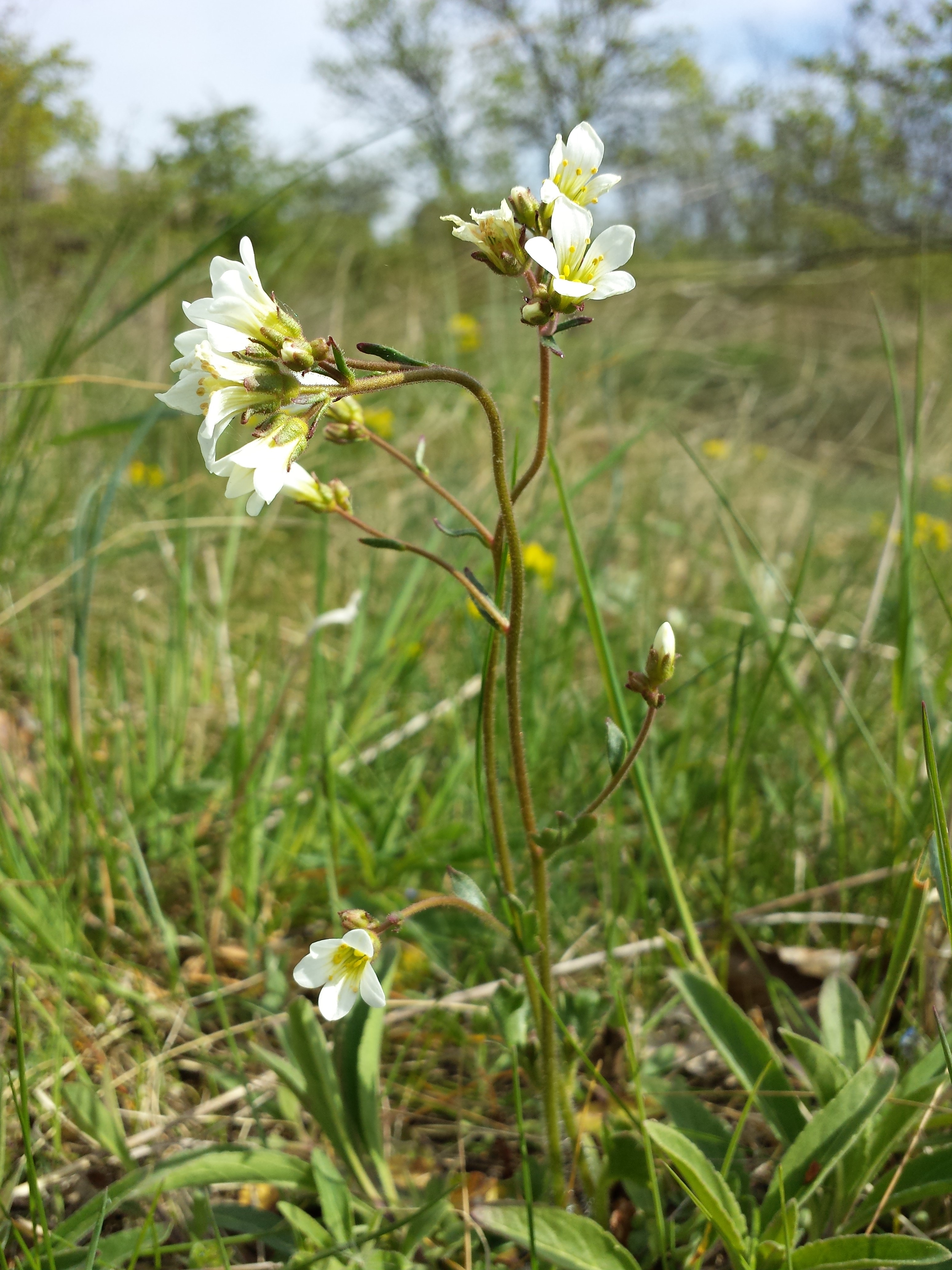 Habitus Taxon: Saxifraga granulata (sensu Fischer et al. EfÖLS 2008 ISBN 978-3-85474-187-9) Location: nature reserve Kogelsteine-Fehhaube, district Horn, Lower Austria - ca. 330 m a.s.l. Habitat: dry grassland (silicate rock) This media shows the nature reserve in Lower Austria with the ID 68. This media shows the natural monument in Lower Austria with the ID HO-047.